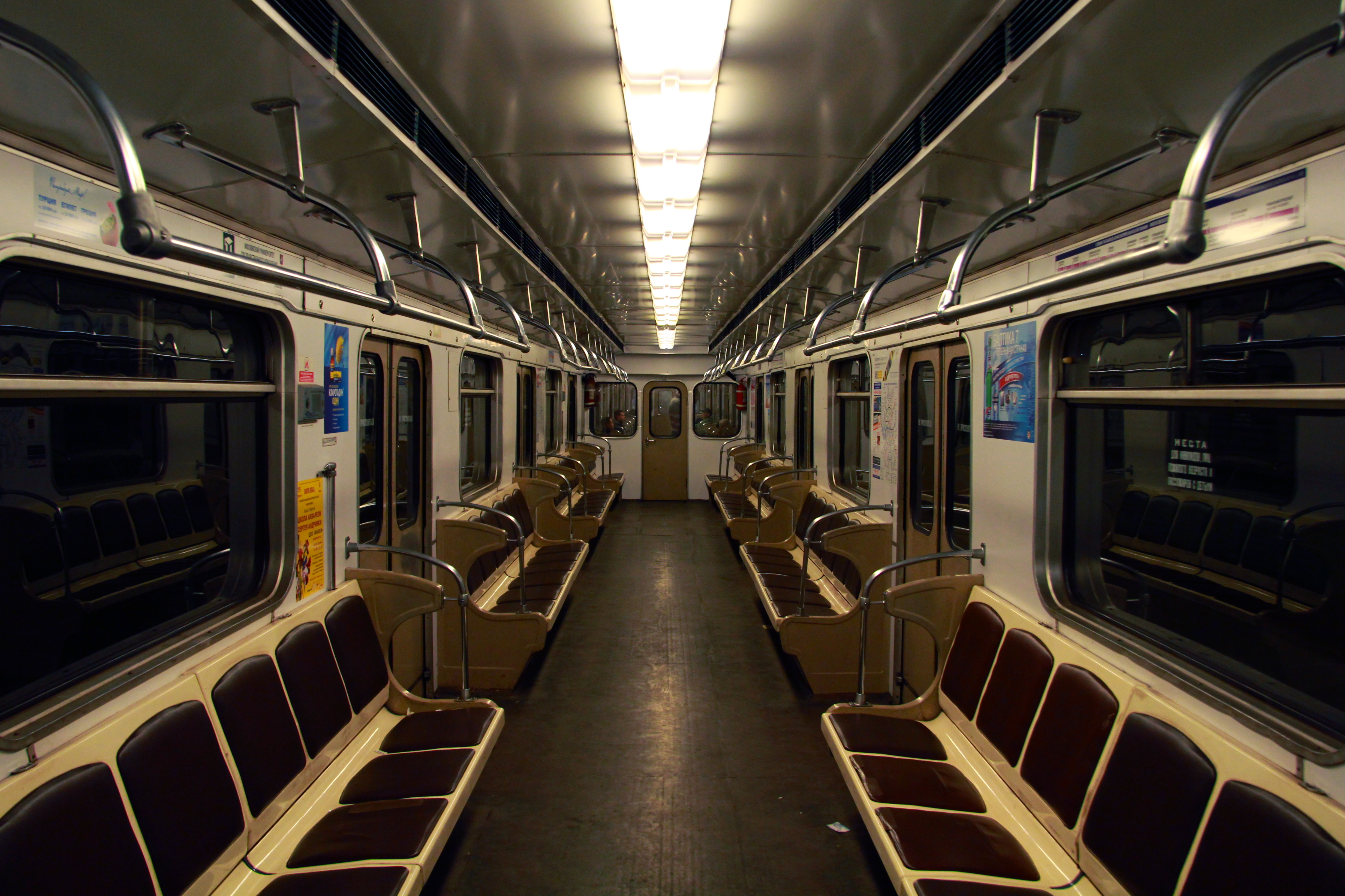 Night of the 76th anniversary of Moscow Metro (Ночь 76го юбилея Московского метро)